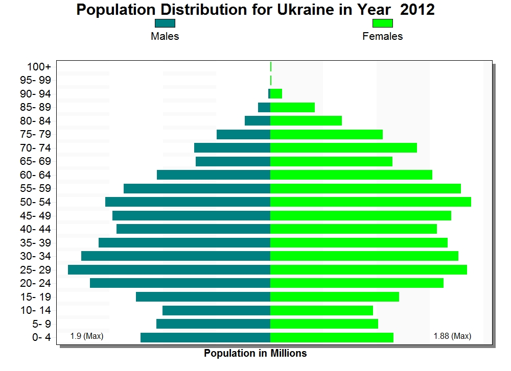 Population pyramid of Ukraine in 2012.